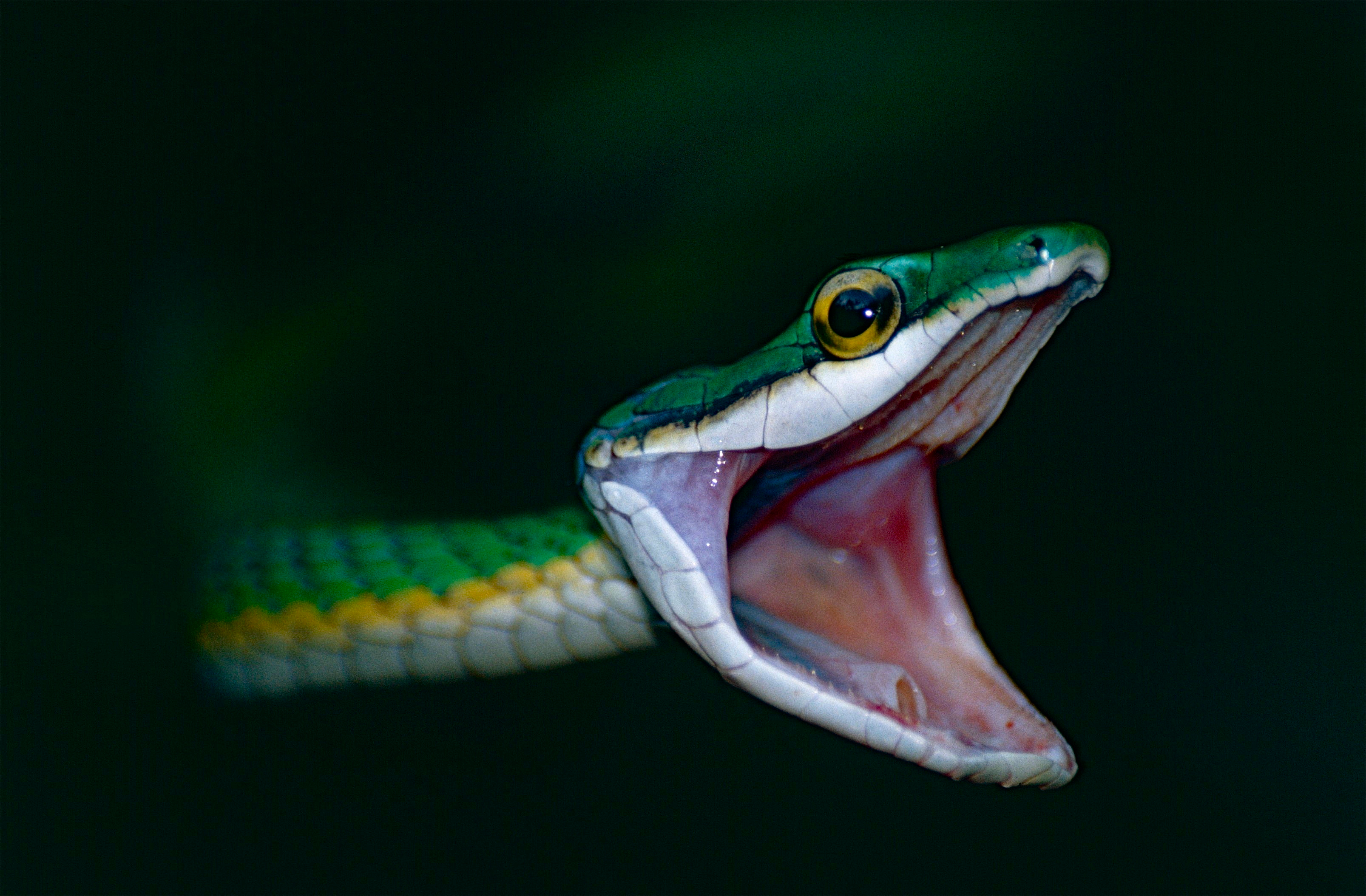 Route de Regina, Guyane, FRANCE Scanned Slide from 2000